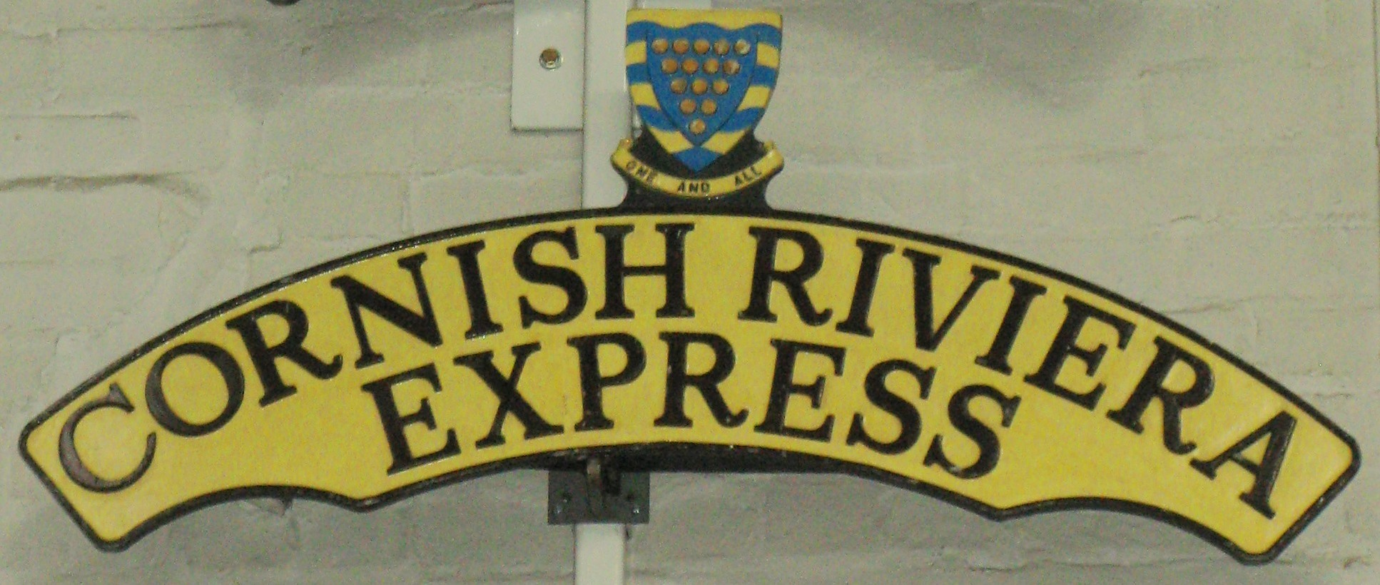 A headboard from the 'Cornish Riviera Express' train that operated between London Paddington station and Penzance in England. It is on display at the National Railway Museum in York.